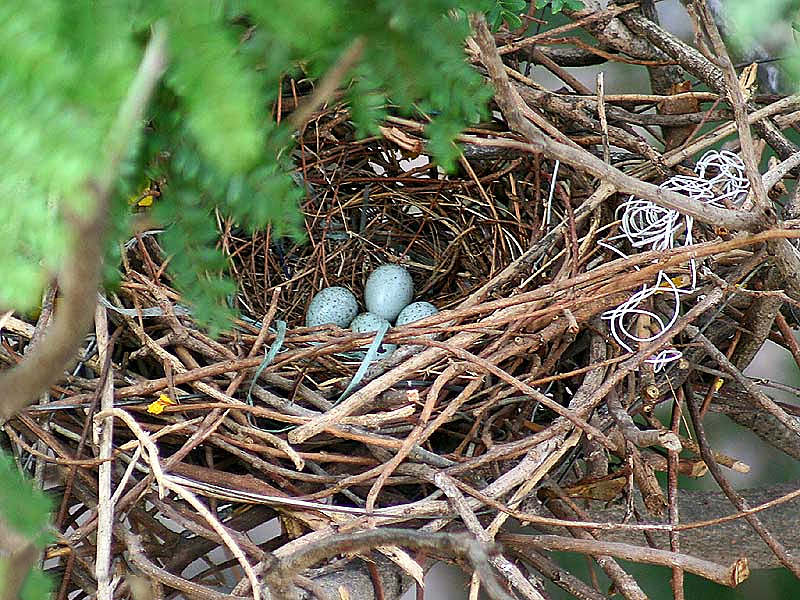 House Crow Corvus splendens in Kolkata, West Bengal, India.